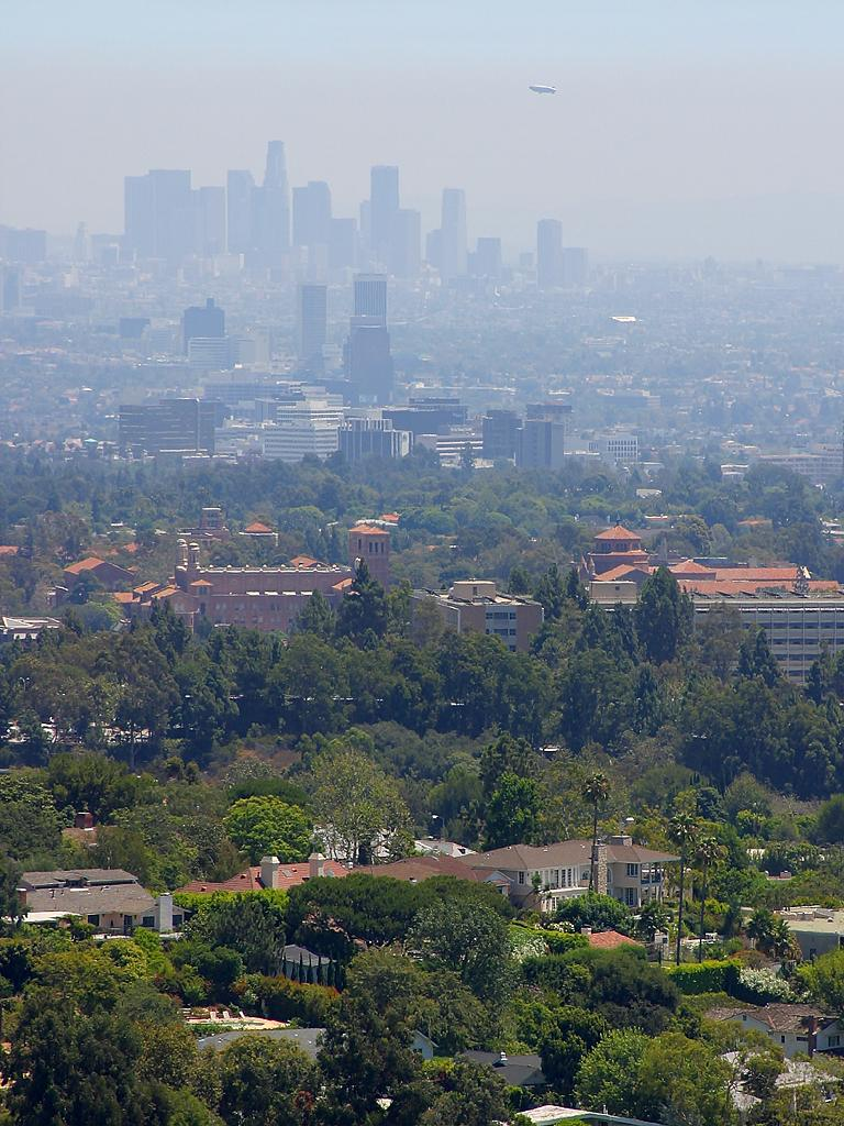 Los Angeles skyline, showing haze.